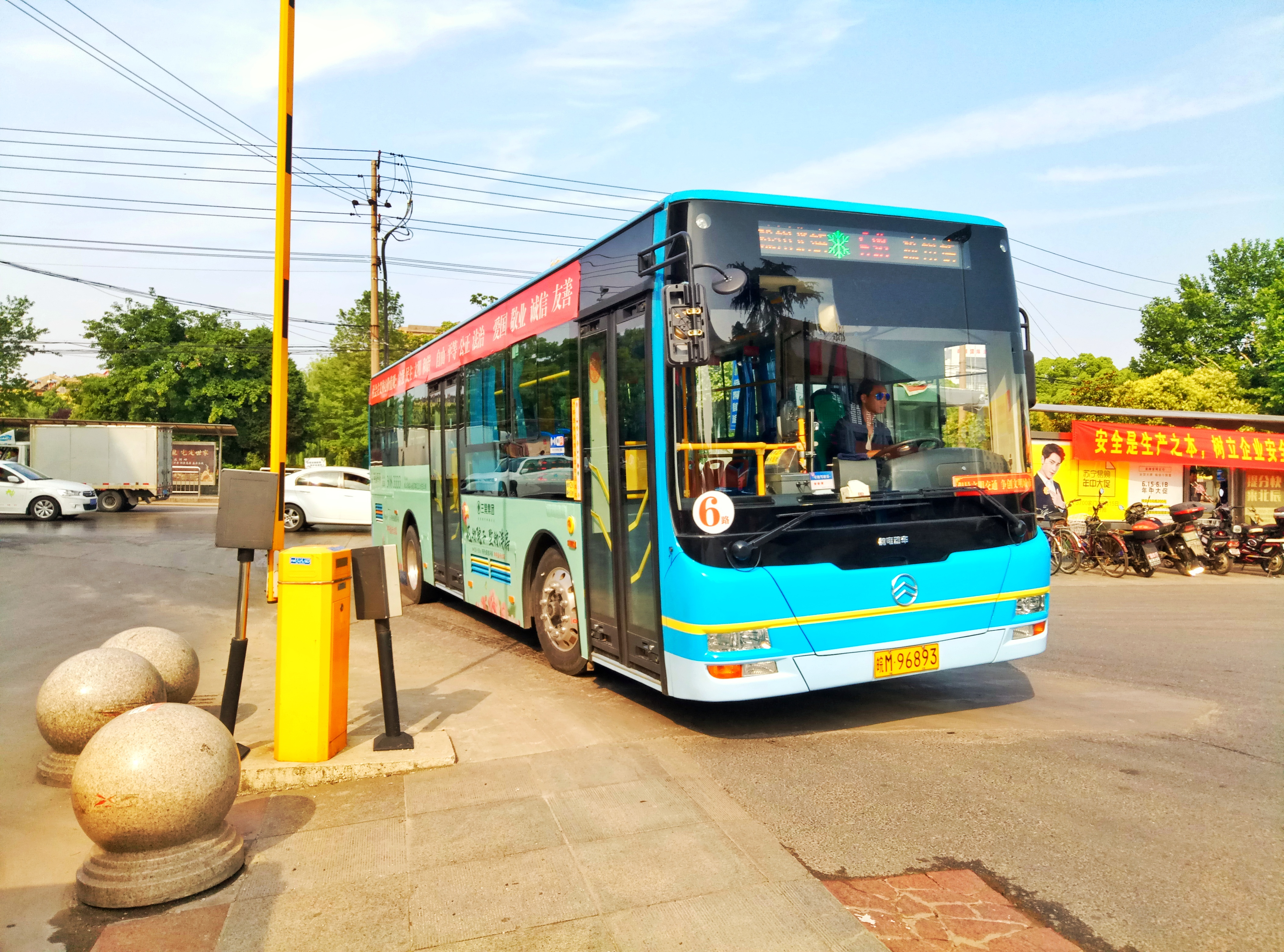 Chuzhou City Electric Bus in Chuzhoubei Railway Station